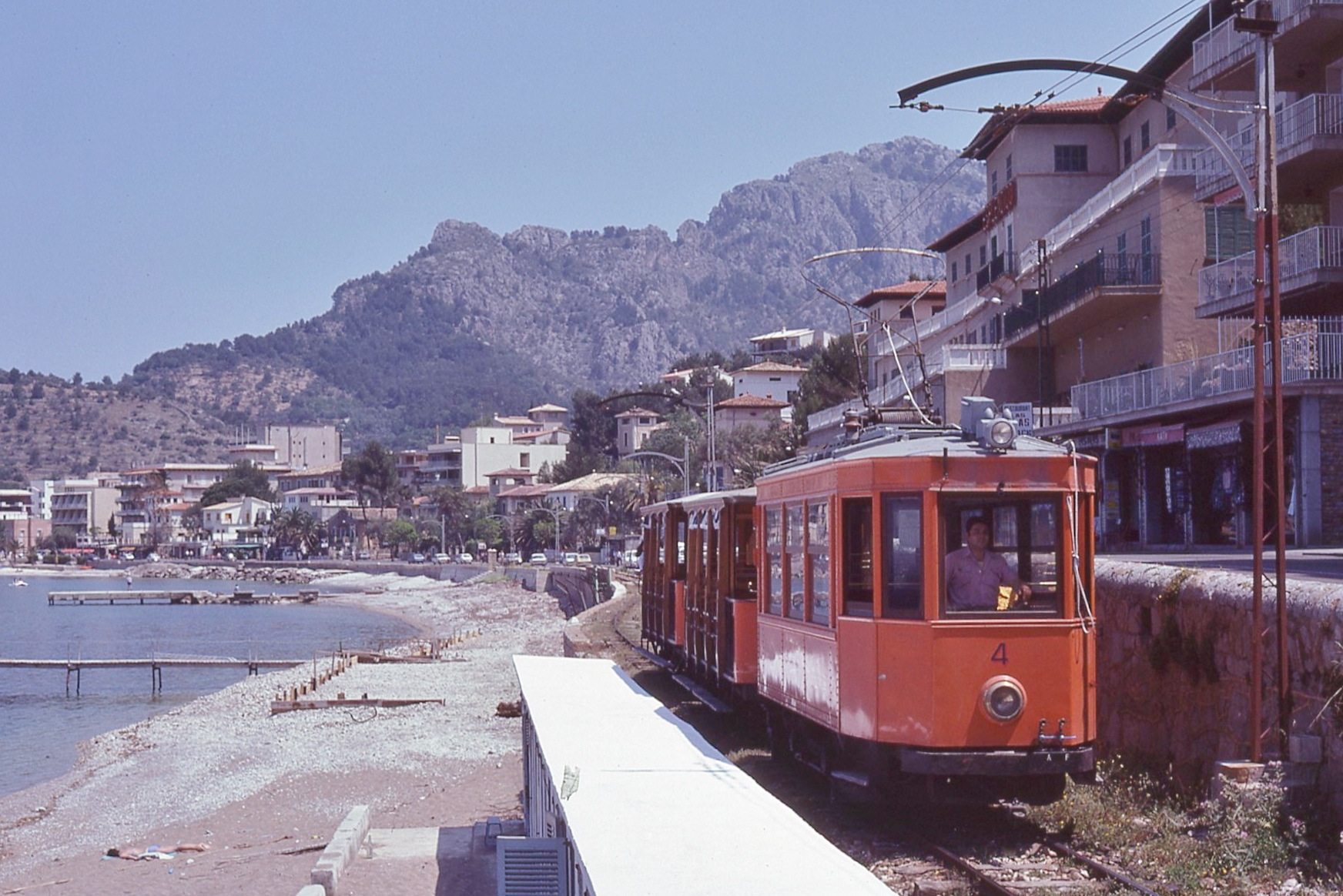 Tram 4 of the Sóller–Puerto de Sóller tramway was built in 1926 and was acquired secondhand from the Bilbao tram system in 1957. Its body and truck/bogie came from two different Bilbao cars, and it had to be re-gauged from Bilbao's then gauge of 1350 mm to Sóller's of 914 mm. It is no longer in service.